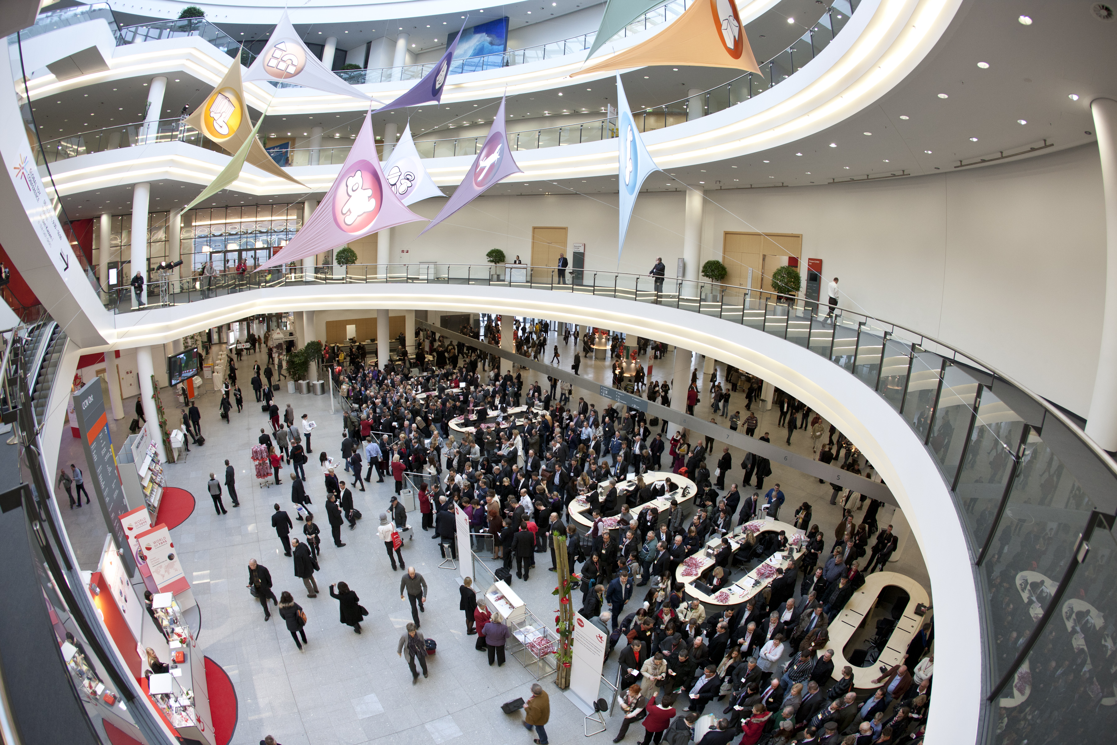 At the Spielwarenmesse International Toy Fair Nürnbgerg 2011.